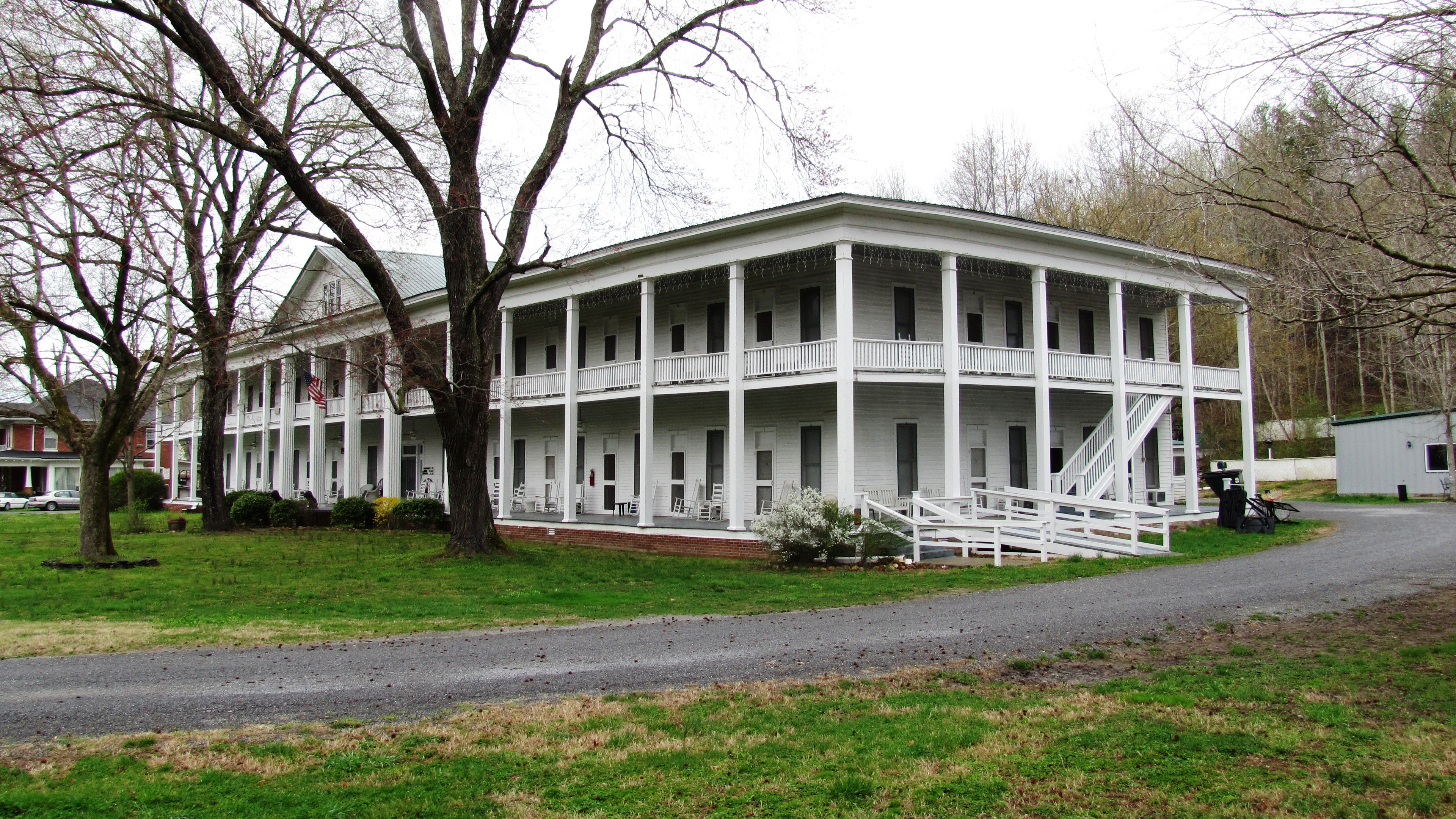 The southwest corner of the Donoho Hotel in Red Boiling Springs, Tennessee, USA. The reddish building on the extreme left is the Donoho House, a contributing building in the Donoho Hotel Historic District. The gray building on the extreme right is the Donoho entertainment complex.